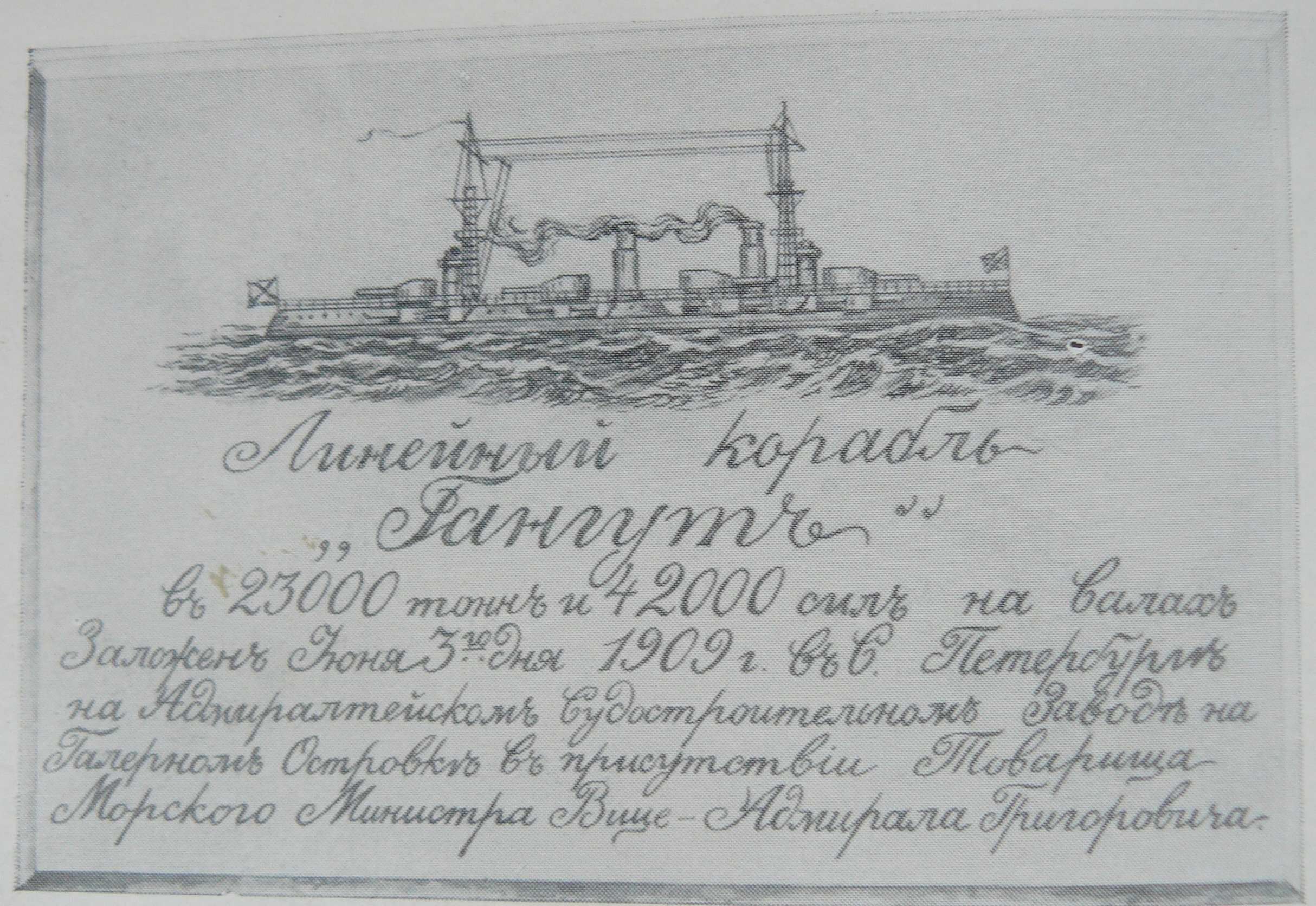 Laid down table of the battleship Gangut